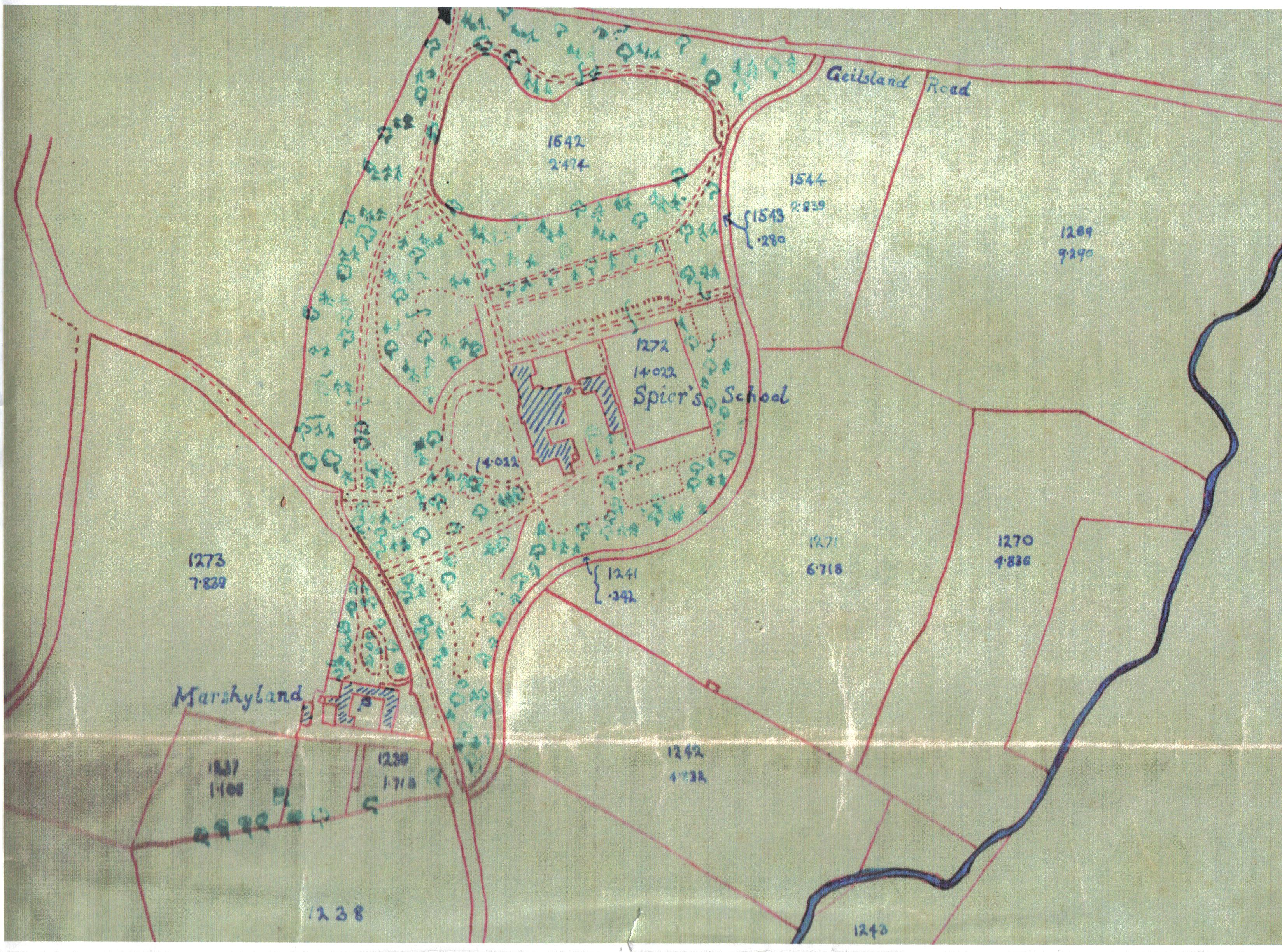 A map of Spier's School and area as they were in 1888